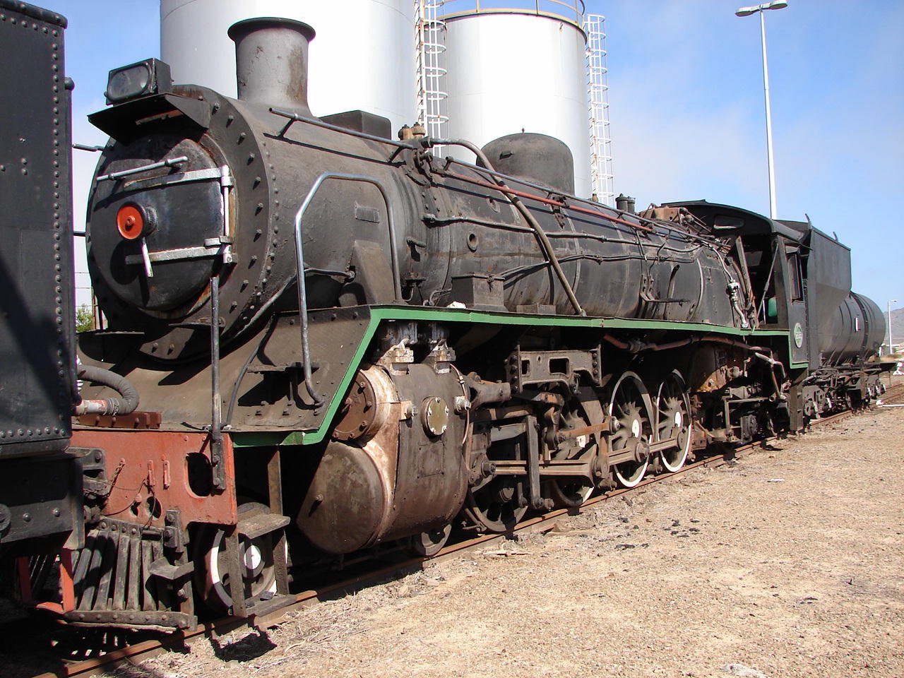 SAR Class 19D 2683 (4-8-2) Builder's Number: Borsig 14734 Tender: Type MX Vanderbilt Location: Voorbaai, Mosselbaai, Western Cape